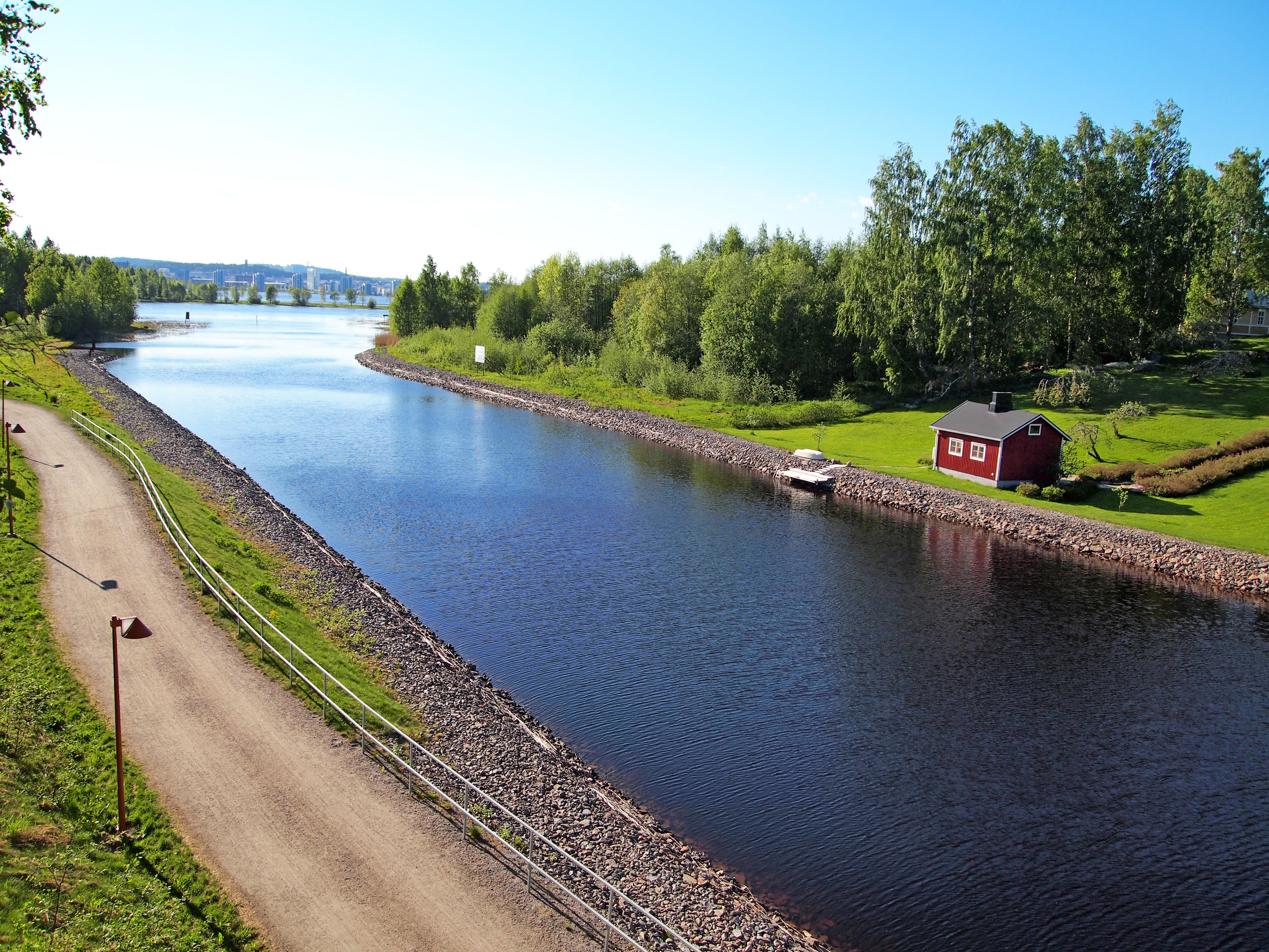 View from a footpath bridge towards strait Äijälänsalmi in Jyväskylä.